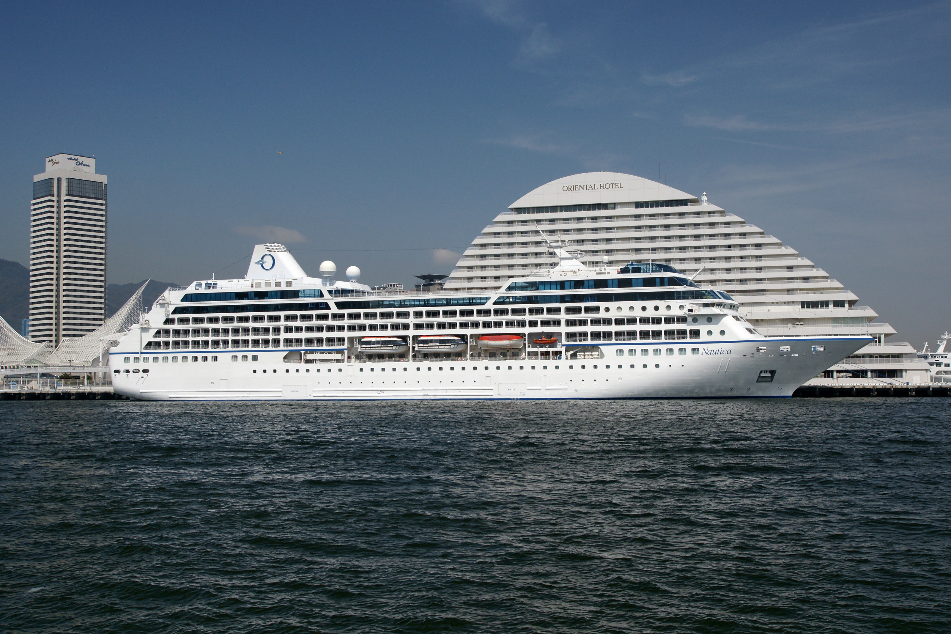 "Nautica" who anchors at "Nakatottei" of the Kobe harbor (Kobe, Hyogo, Japan)